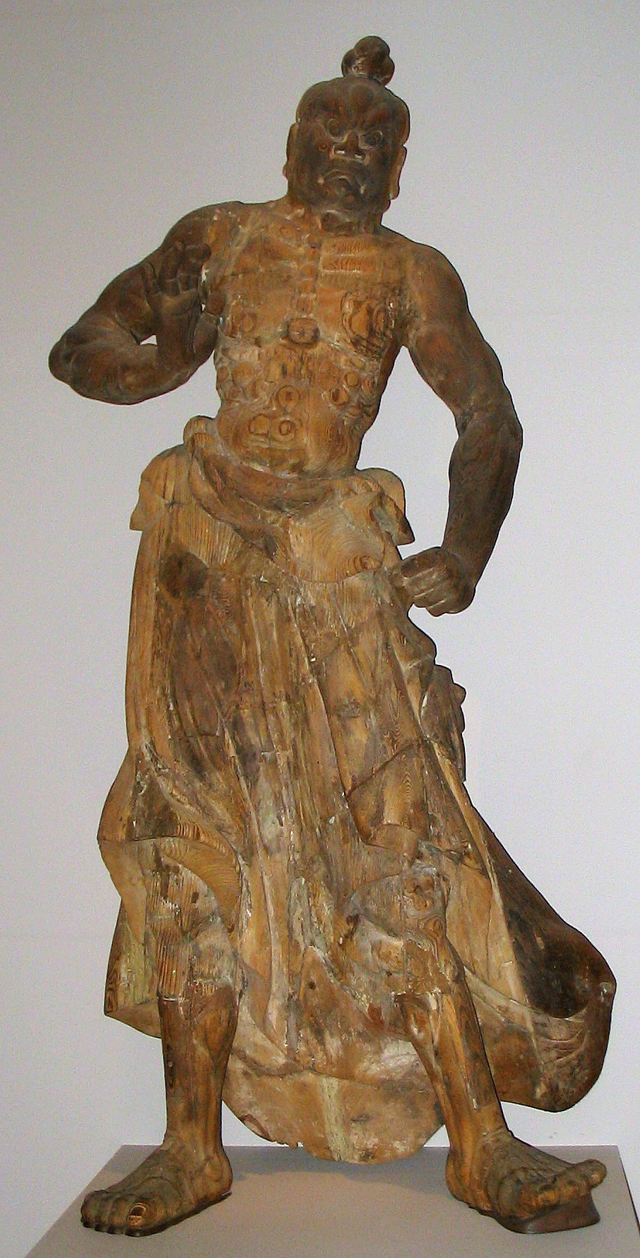 Kongorikishi statue from 14th century Japan. Wood. The sculpural style is flamboyantly realistic, as is typical of the period. Originally stood guard at the gate to Ebaradera, a temple in Sakai, near Osaka. Now on exhibit at the Sackler Gallery at the Smithsonian Institution.